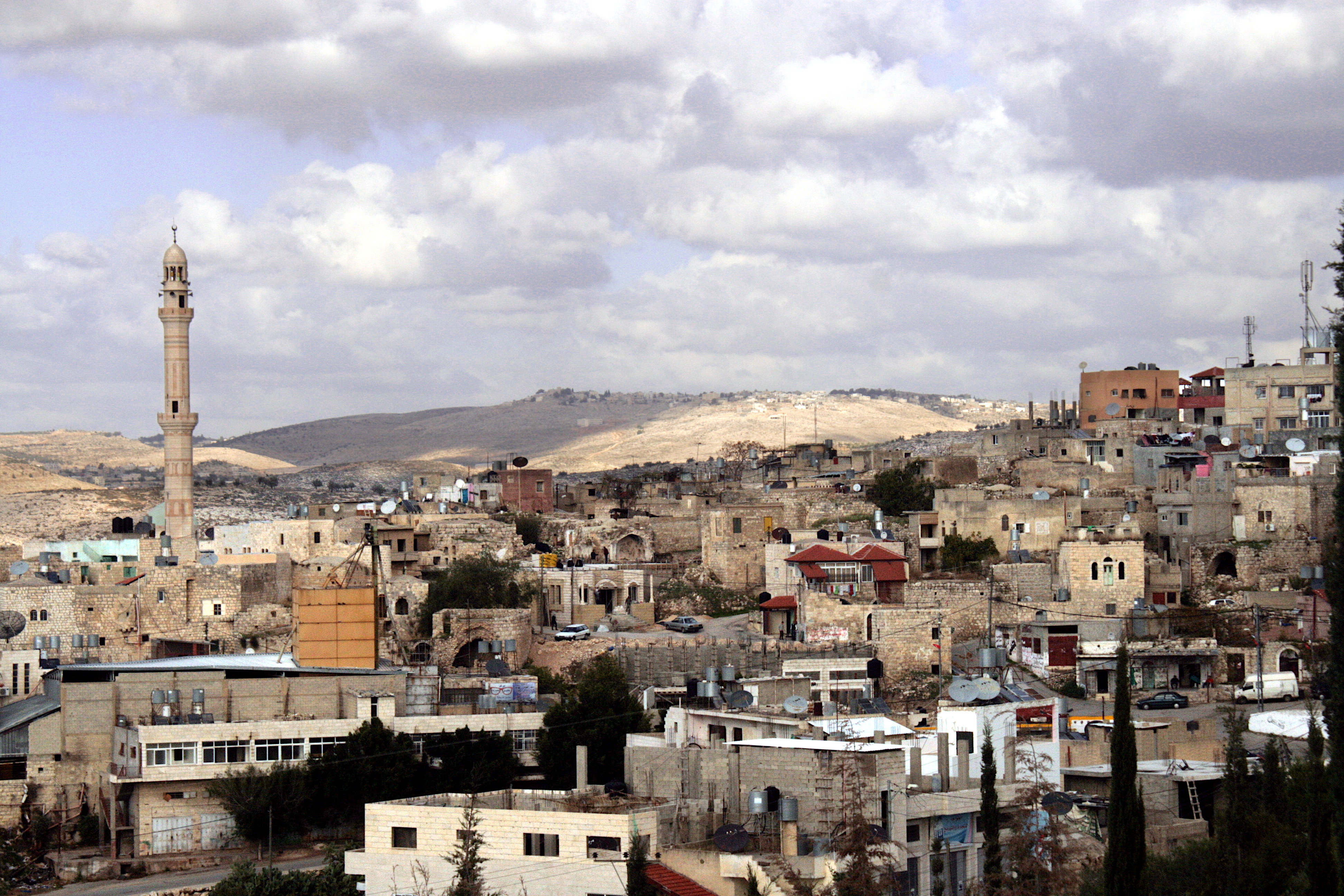 View of Ni'lin